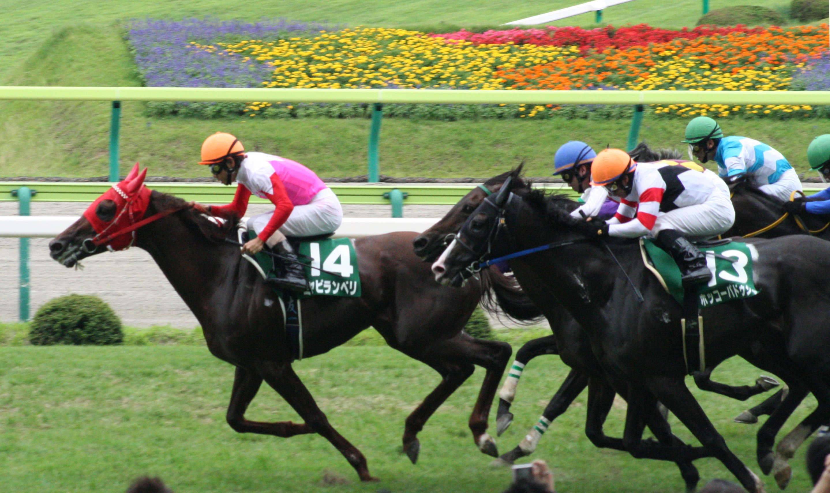 The 45th Tanabatasho